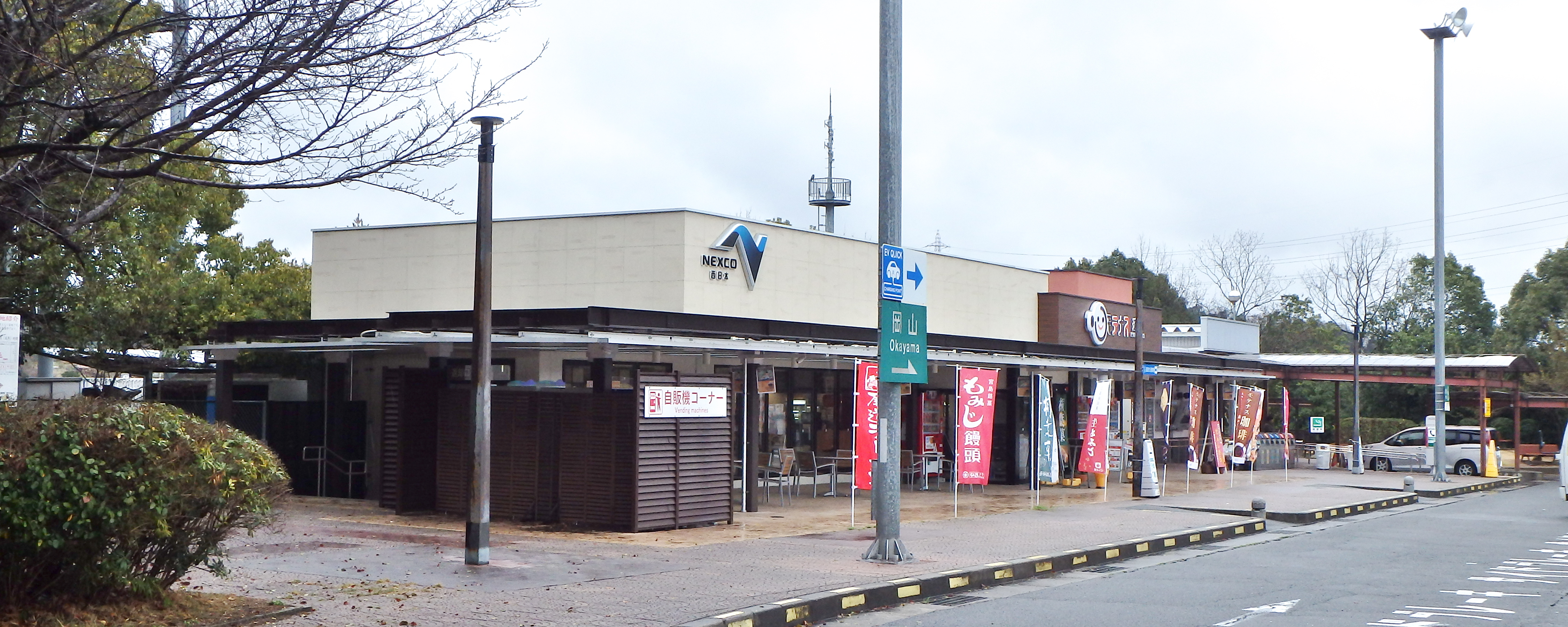 Michiguchi Parking Area for Osaka,Okayama prefecture,Japan